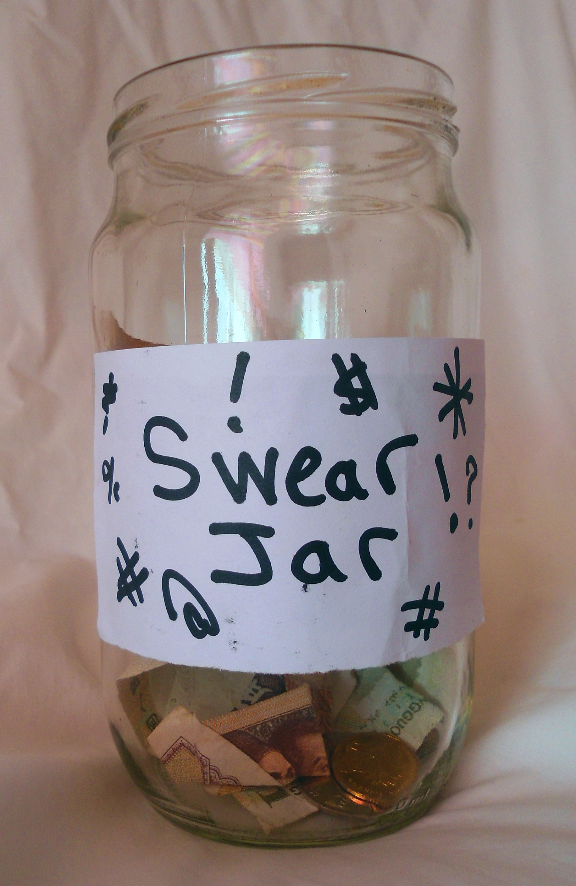 A swear jar